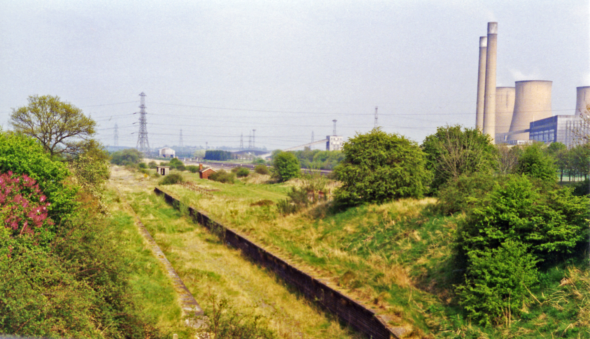 Fledborough station (remains), 1995. View eastward, towards Lincoln (over River Trent ahead): ex-GCR (Lancashire, Derbyshire & East Coast) Chesterfield - Shirebrook - Lincoln line. The station closed to passengers when the service Shirebrook - Lincoln ended 19/9/55, but to goods not until 4/1/65. Over on the right is High Marnham Power Station, closed 2003, which was served off this railway from Shirebrook to a junction just west of here